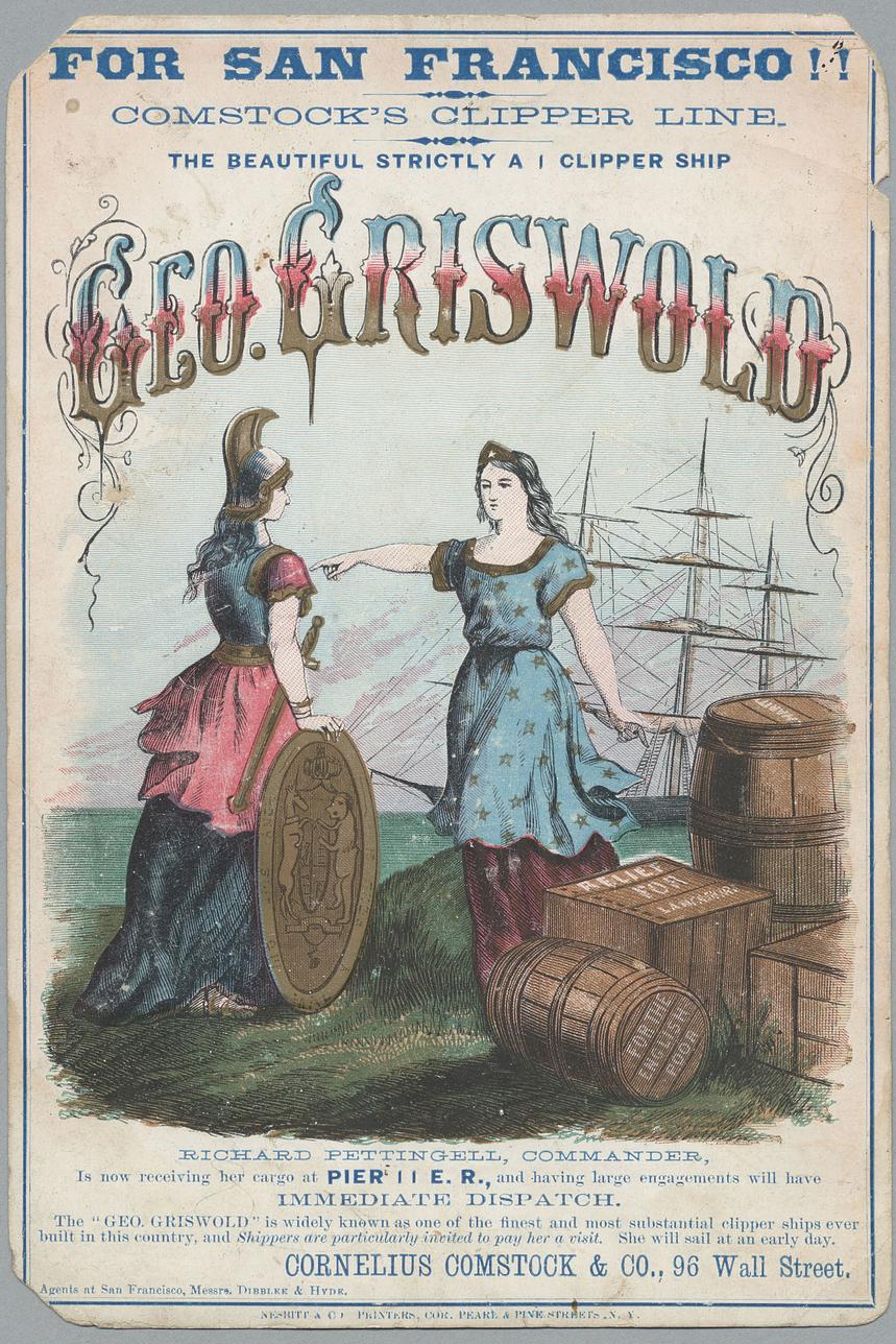 GEO. GRISWOLD Clipper ship sailing card. Richard Pettingell, Commander This card later than early 1863 Note: The George Griswold 1800 tons. owned by N. L. and G. Griswold (George Griswold), commanded by Captain Lunt left New York on January 1863 with a cargo for the relief of Lancashire working men. Cargo donated by the International Relief Committee and the New York Produce Exchange. She arrived in Liverpool on 9 February 1863. Exchange. See: The Lancashire Cotton Famine 1861-65, By William Otto Henderson. Manchester University Press.[1]